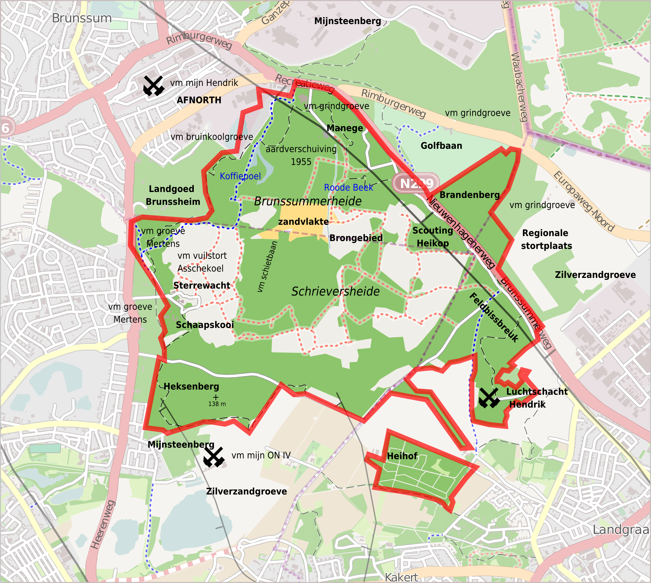 Map of Brunssummerheide, Netherlands